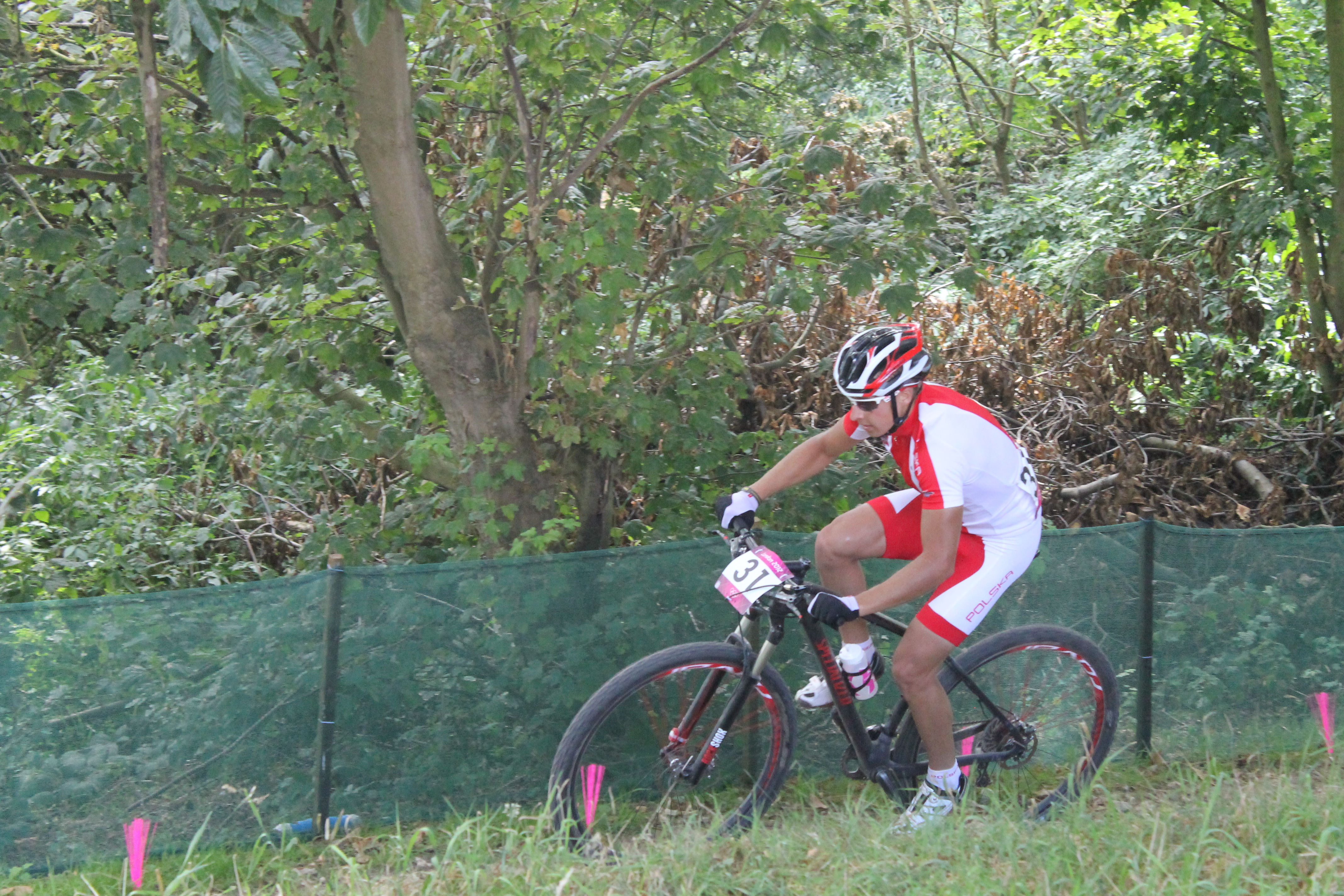 Cycling at the 2012 Summer Olympics – Men's cross-country Piotr Brzózka (31) (POL) IMG_4157